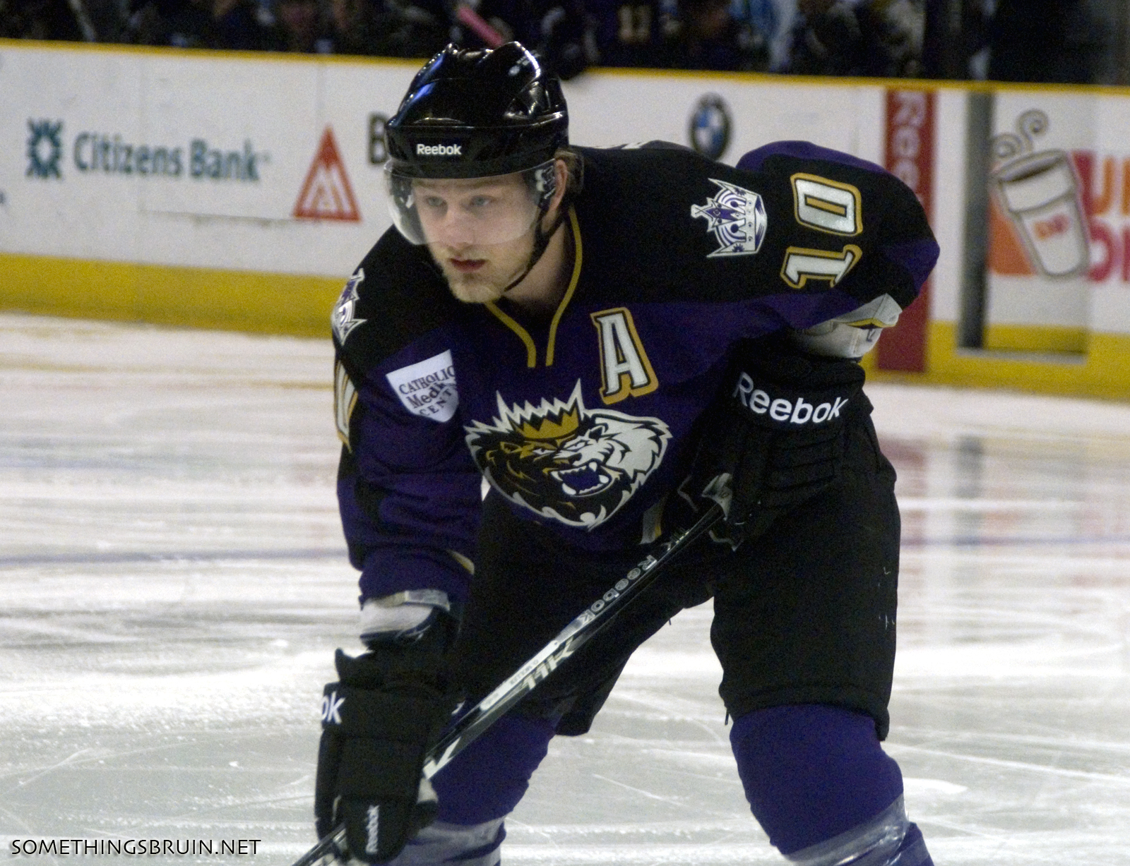 Oscar Moller of the Manchester Monarchs during the 2010–11 AHL season. Manchester Monarchs versus Providence Bruins. American Hockey League (AHL). Taken by Sarah Connors on January 23, 2011 using a Nikon D200. This photo also appears in Sarah Connors' Flickr set "Manchester @ Providence, 1/23/11" (Set of 98).